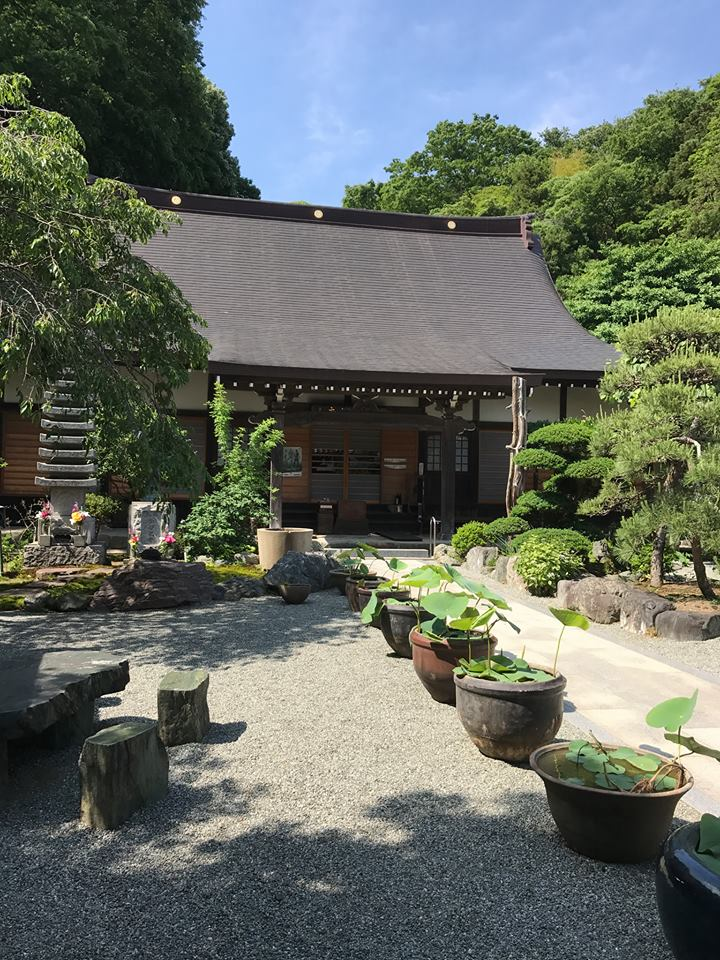 myoenji